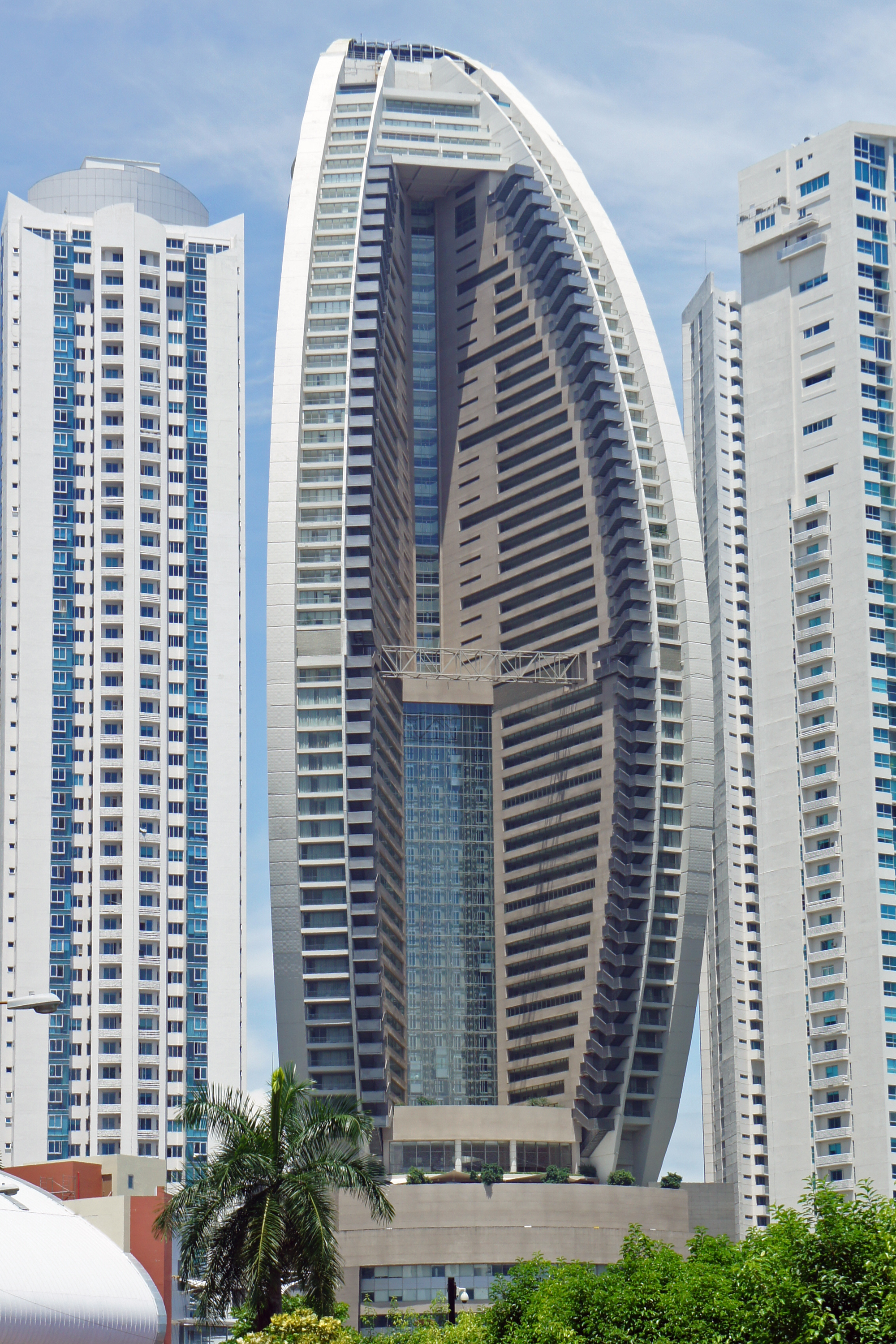 Trump Ocean Club International Hotel and Tower, the tallest building in Panama City as of August 2013, Panama.